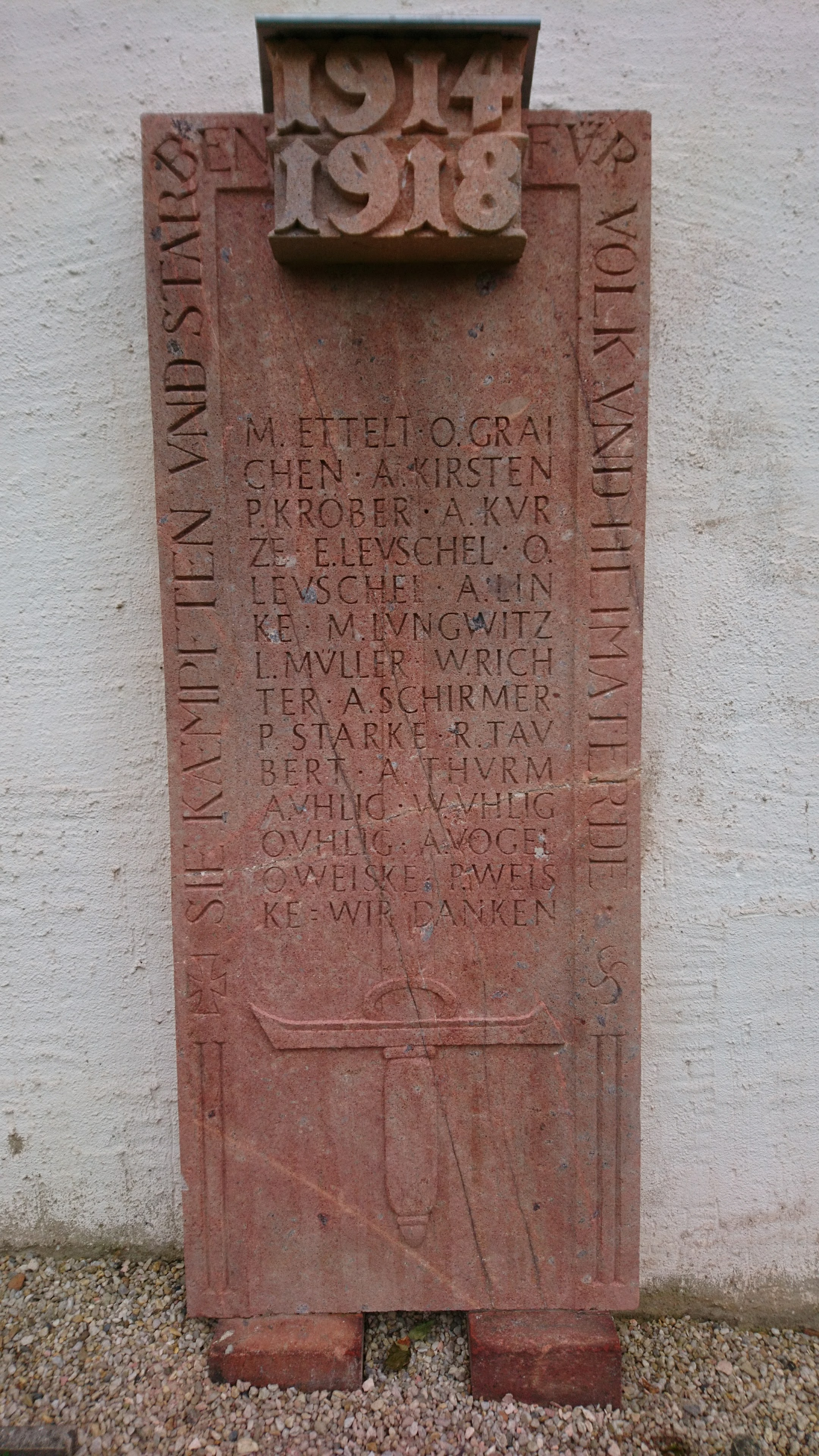 Monument to the fallen of the First World War from Benndorf near Frohburg